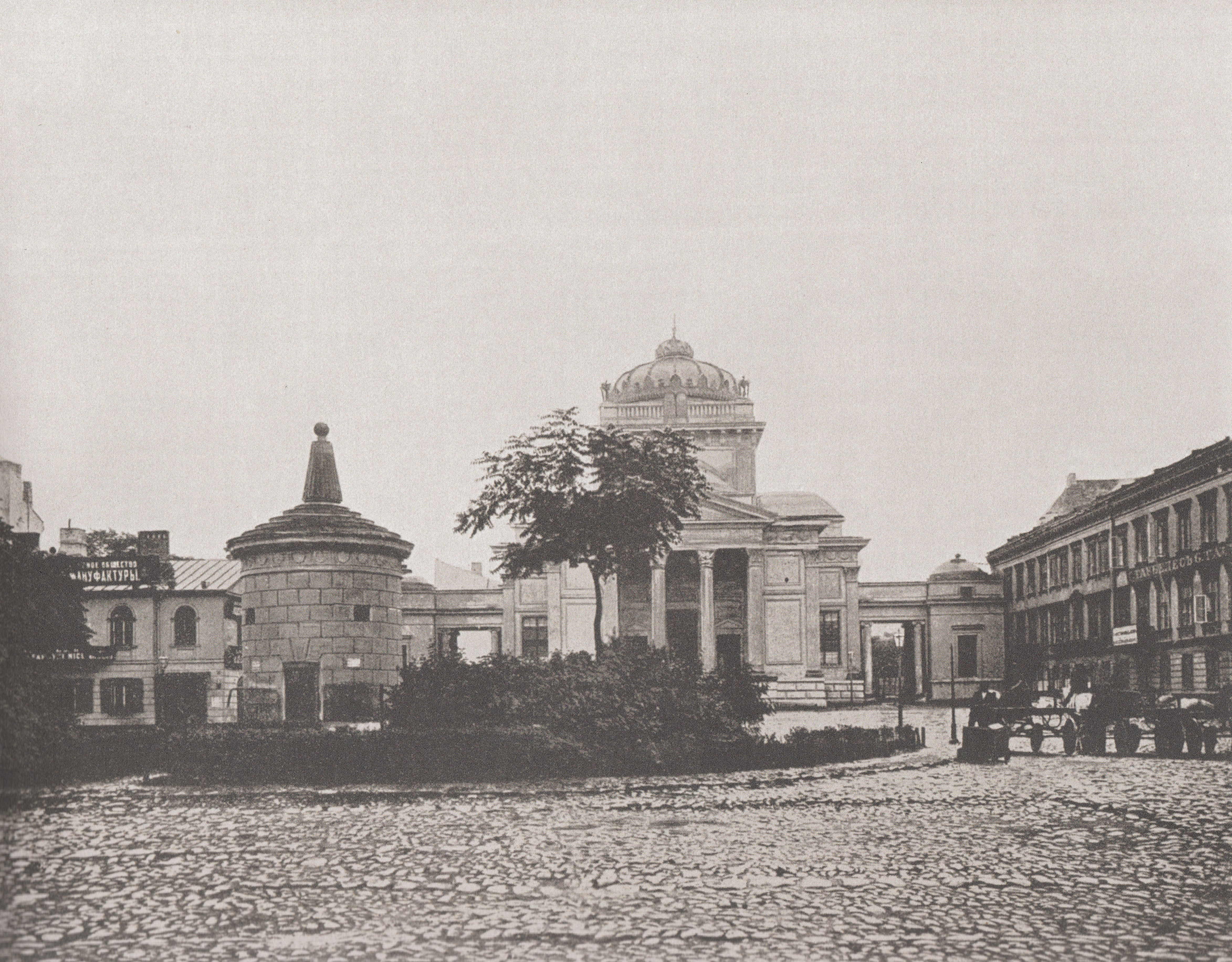 Great Synagogue in Warsaw